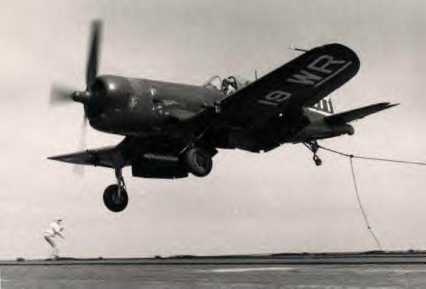 A U.S. Marine Corps Vought F4U-4B Corsair of Marine Fighter Squadron 312 (VMF-312) "Checkerboards" making a bad landing aboard an aircraft carrier, probably in the late 1940s, when Marine F4Us wore a white line below the tail codes.